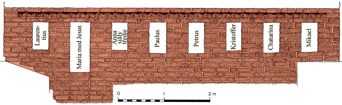 Drawing of St. Peter church, Malmo, Sweden.